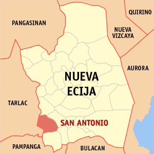 Map of Nueva Ecija showing the location of San Antonio